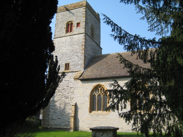 West tower and west end of the nave of St Andrew's parish church, Northover, Ilchester, Somerset, seen from the south